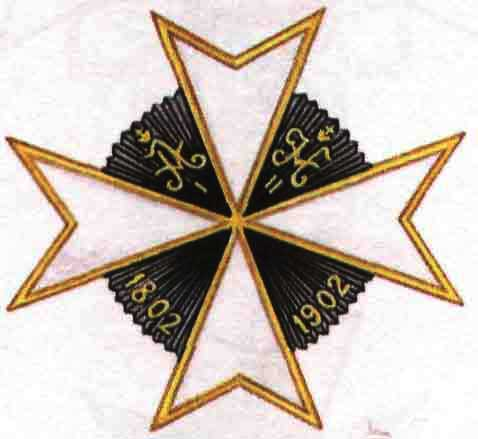 Badge of Pajesky corps